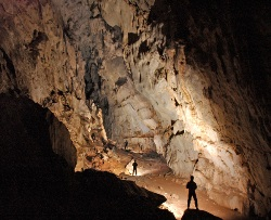 Approximately 35 meter high passage in Chom Ong Cave, Oudomxay Province; biggest cave in Northern Laos. © Torben Bjerring Redder